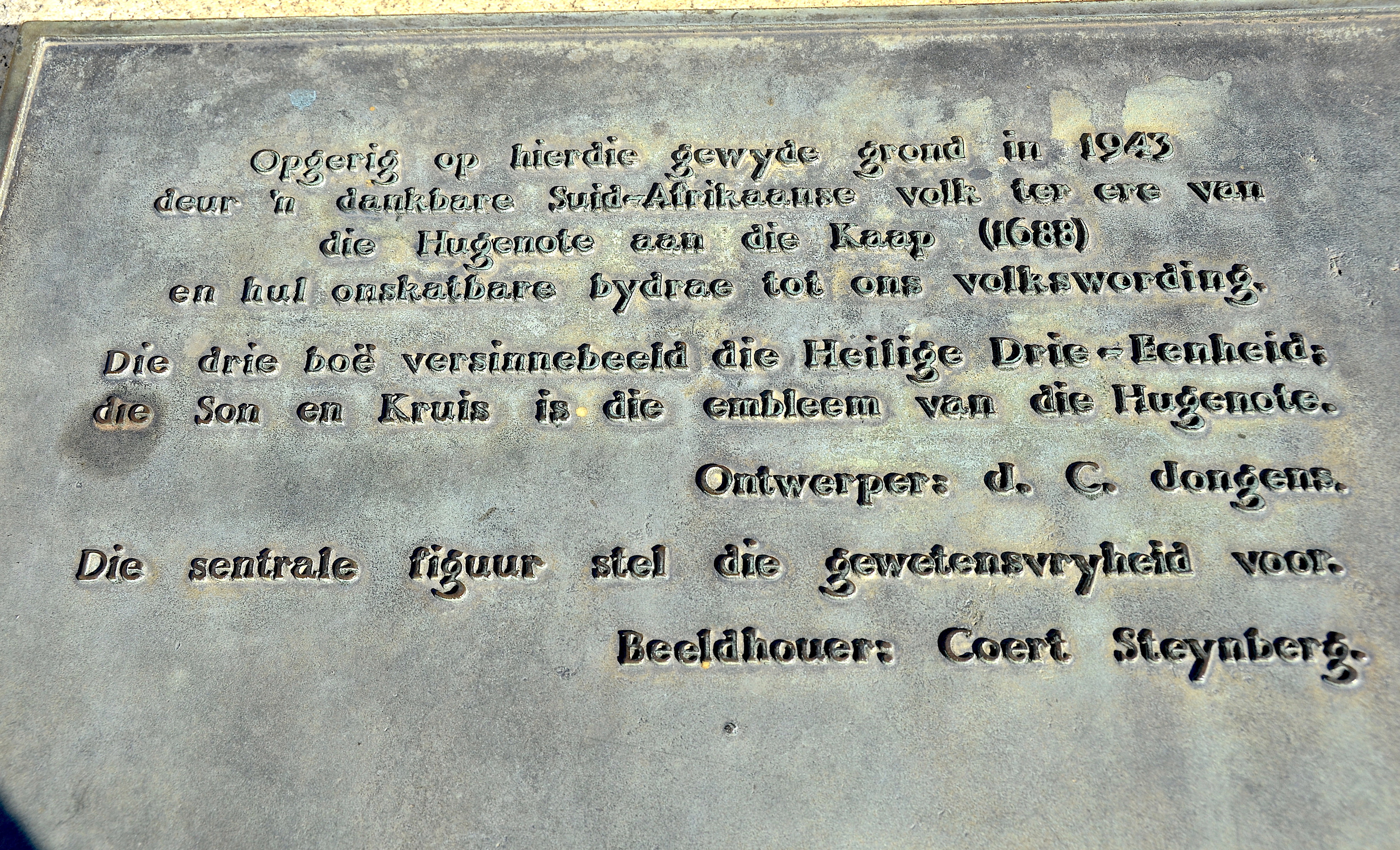 Historic plaque in Franschhoek (South Africa), honouring the Huguenots